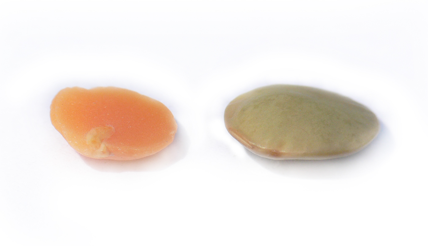 Red and Brown lentils (Lens culinaris)comparison